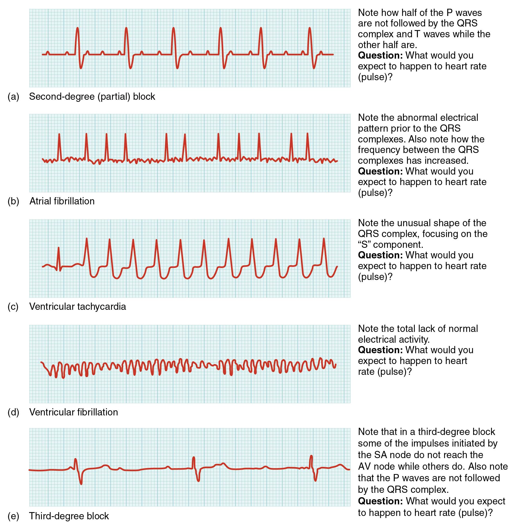 Illustration from Anatomy & Physiology, Connexions Web site. Jun 19, 2013.